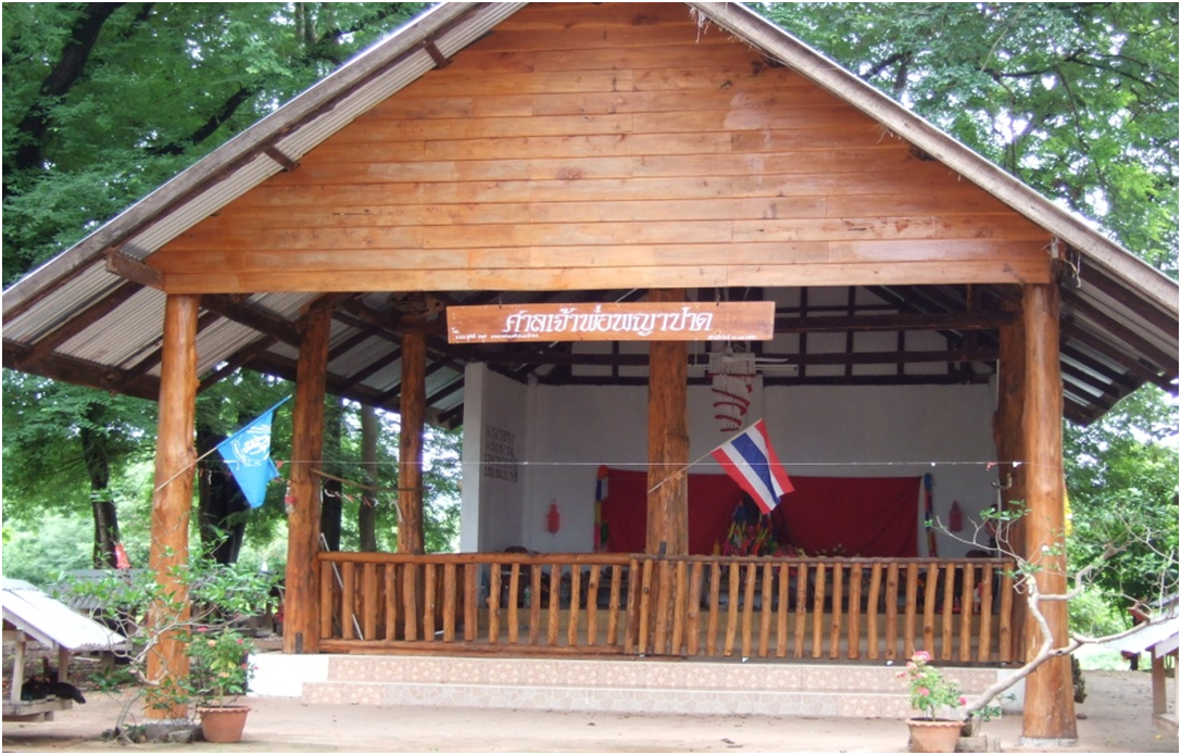 Ban Fai บ้านฝาย หมู่ที่ 1 ตำบลบ้านฝาย อำเภอน้ำปาด จังหวัดอุตรดิตถ์